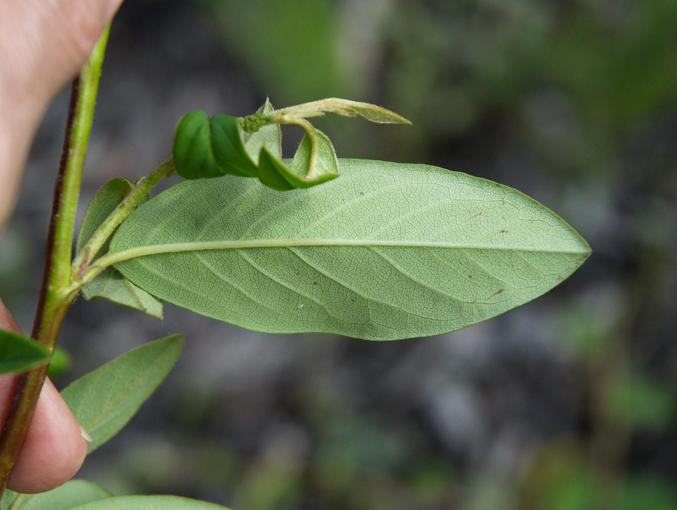 Cotoneaster × watereri 'Pendulus' Other photos of the same plant